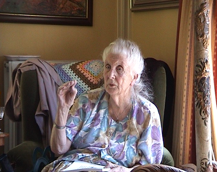 Florentine Rost van Tonningen at her home in Waasmunster in August 2003.